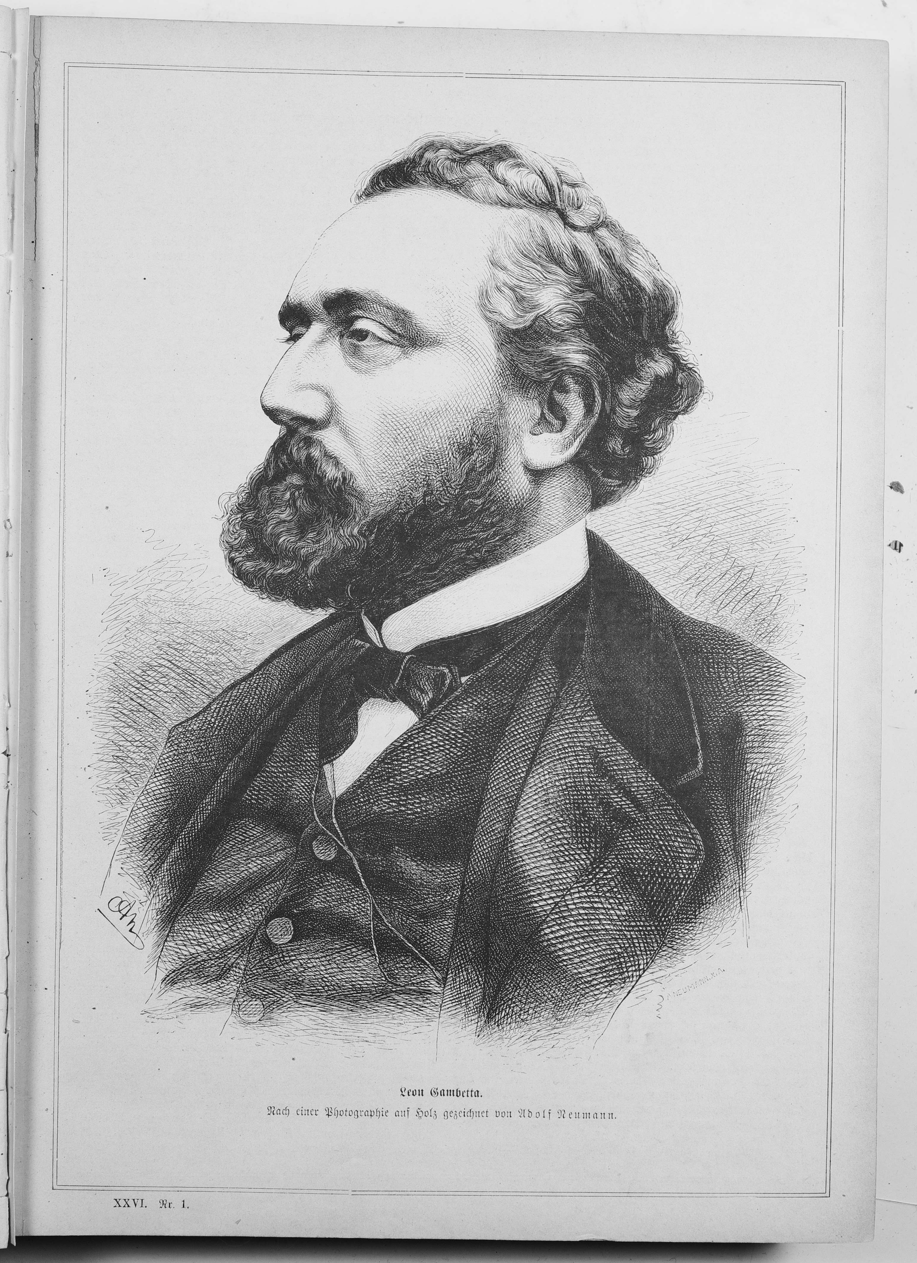 Page 9 from journal Die Gartenlaube for 1878. Extracted image (if any): File:Die Gartenlaube (1878) b 009.jpg - hi res, ~2.5 MB.